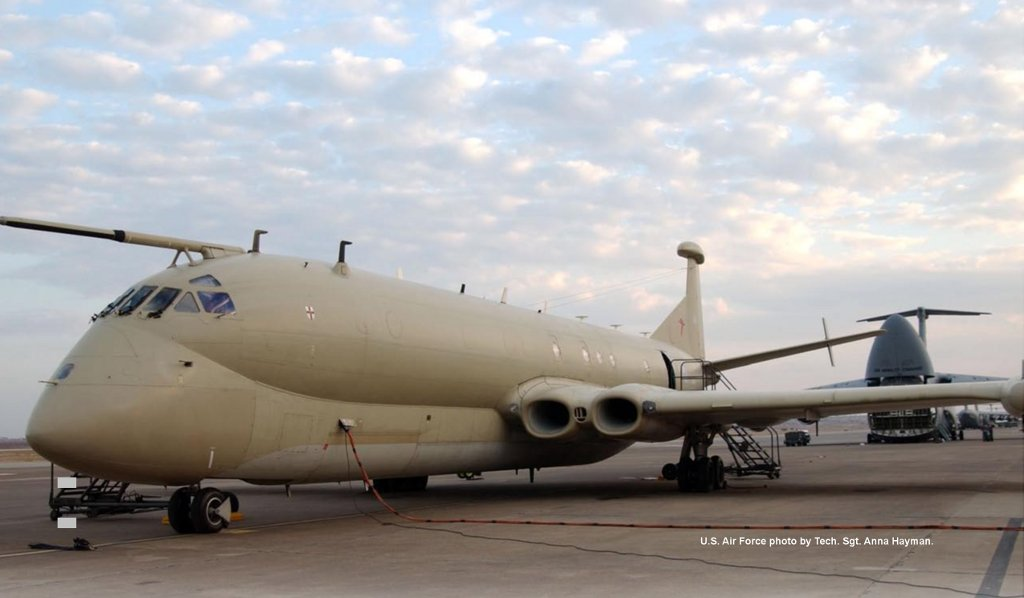 A Royal Air Force MR-2 Nimrod reconnaissance aircraft sits on the tarmac prior of a sortie from Incirlik Air Base, Turkey.